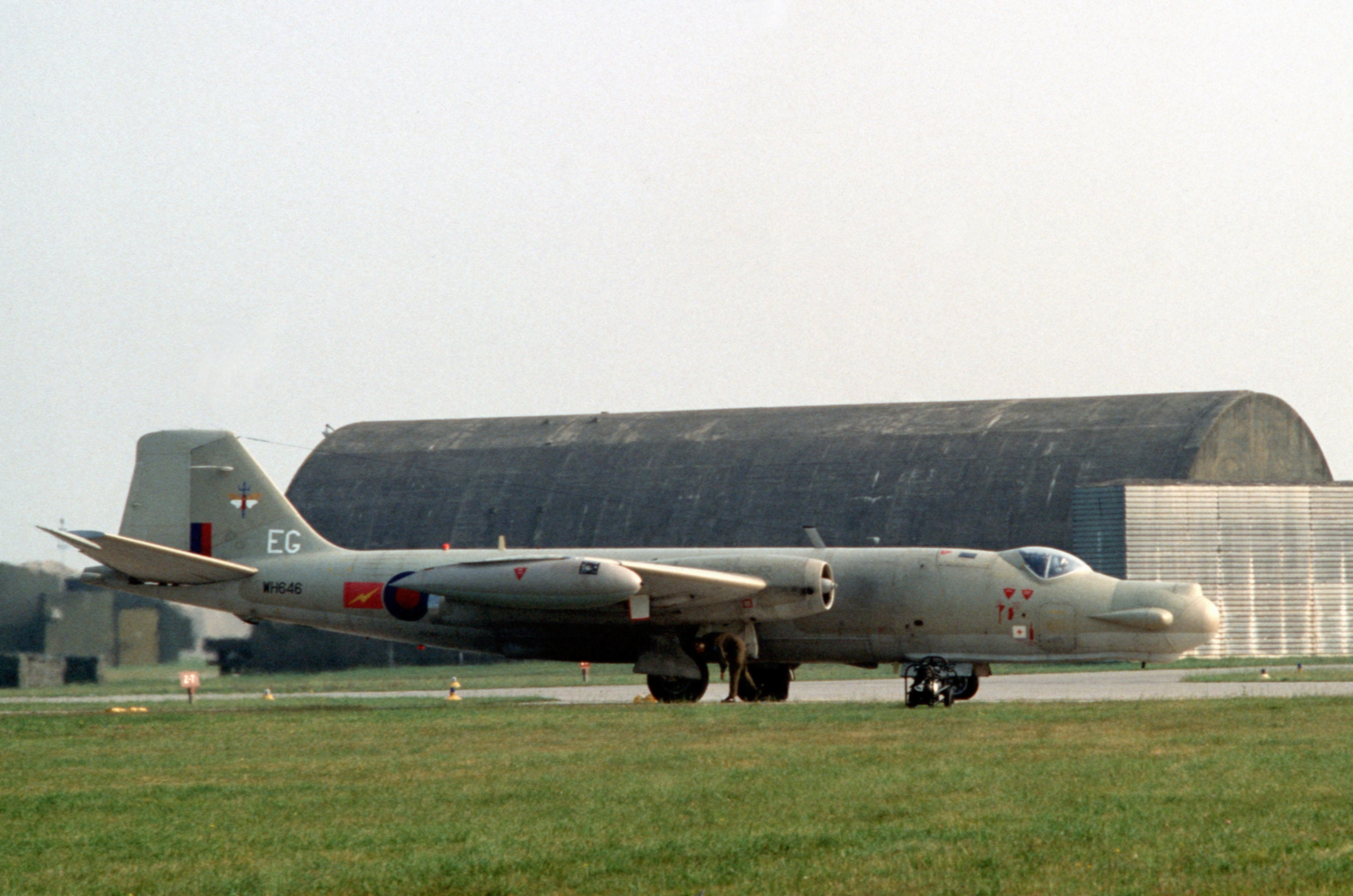 A Royal Air Force English Electric Canberra T.17 (serial WH646) from No. 360 Squadron is given a preflight check at Aviano Air Base, Italy, during the U.S. Air Forces in Europe exercise "Display Determination '89".